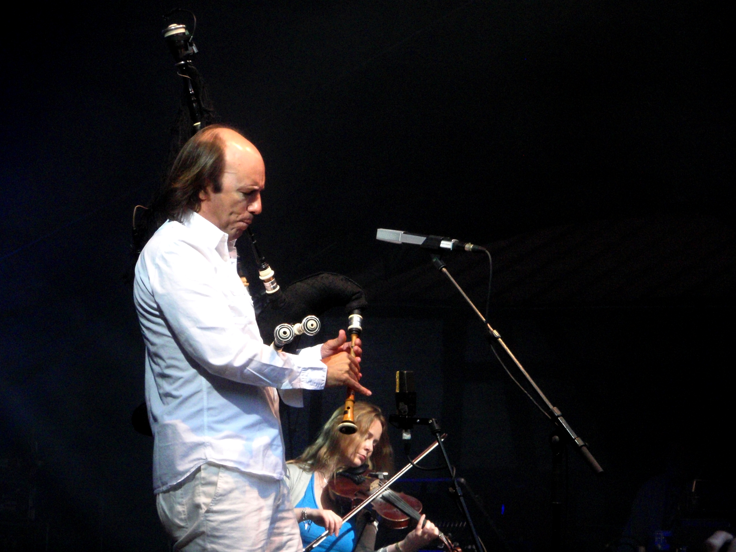 Carlos Núnez, spanisch folk and worldmusic artist ; "Folk im Schlosshof" (FiS) Festival in Bonfeld 01/07/2011 (International folk festival in Germany)